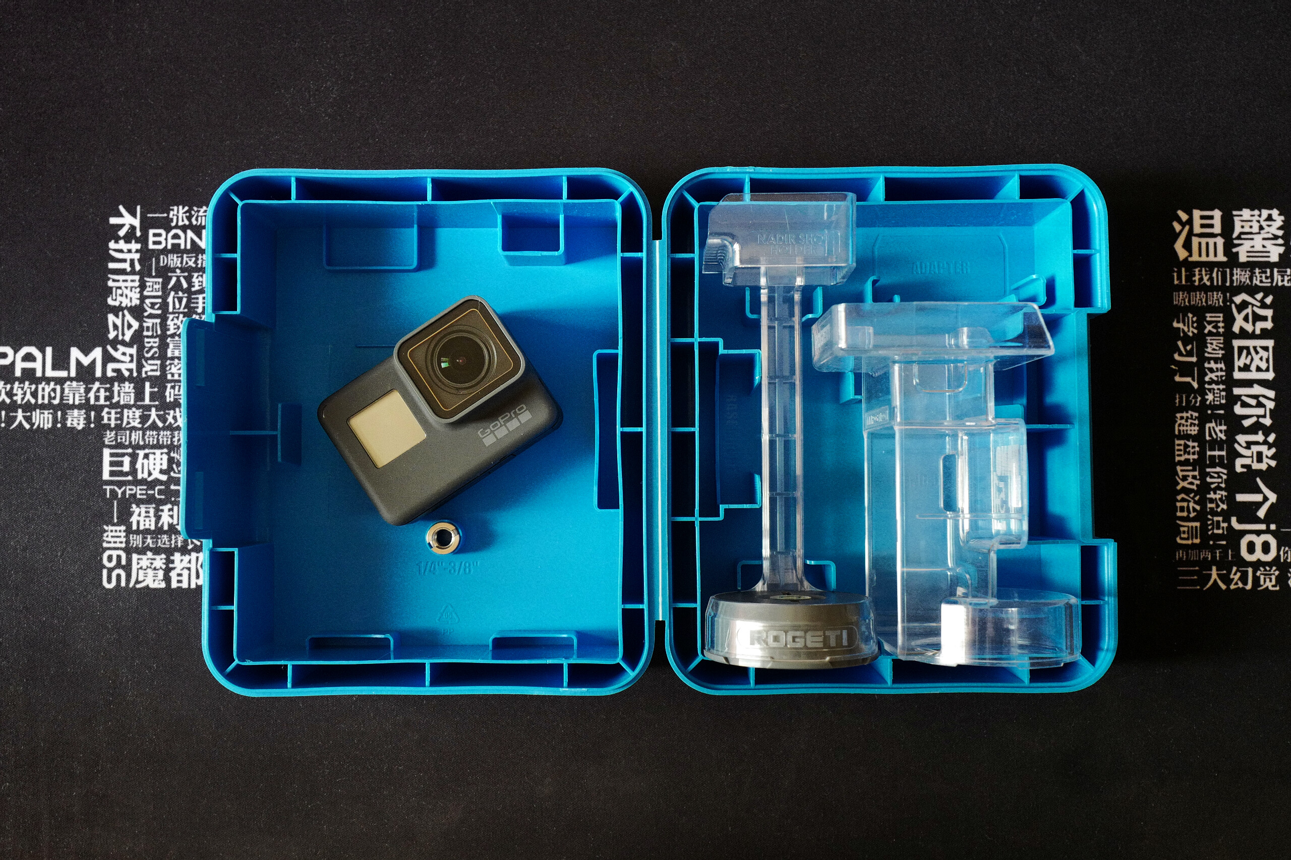 Pano5+1 MarkII package and GoPro Hero 5。